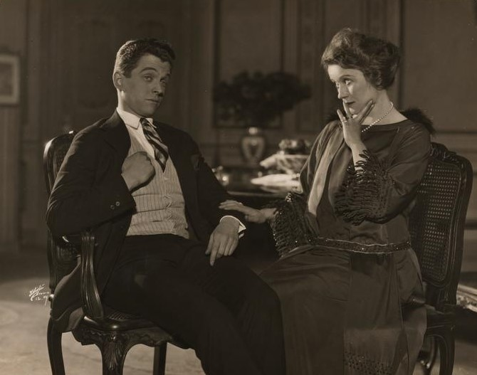 Kenneth MacKenna & Lucile in the play The Nest, Broadway - publicity still (cropped)